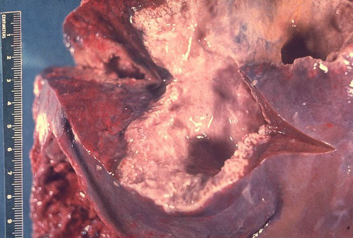 ID#: 357 Description: Gross pathology of liver containing amebic abscess Gross pathology of liver containing amebic abscess. Content Providers(s): CDC/Dr. Mae Melvin; Dr. E. West of Mobile, AL Creation Date: 1962 Copyright Restrictions: None - This image is in the public domain and thus free of any copyright restrictions. As a matter of courtesy we request that the content provider be credited and notified in any public or private usage of this image.